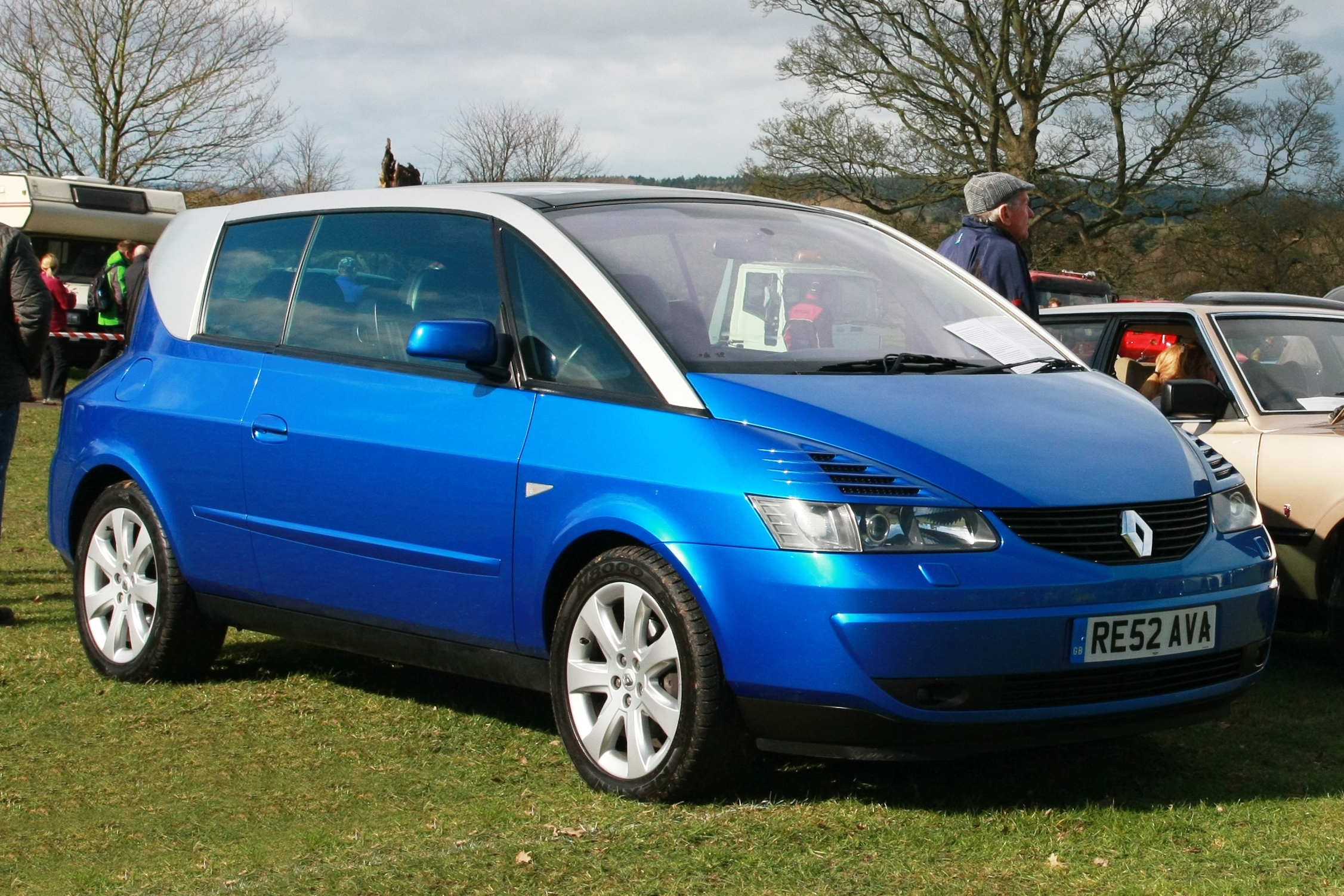 Renault Avantime (2003) at Weston Park (2016)